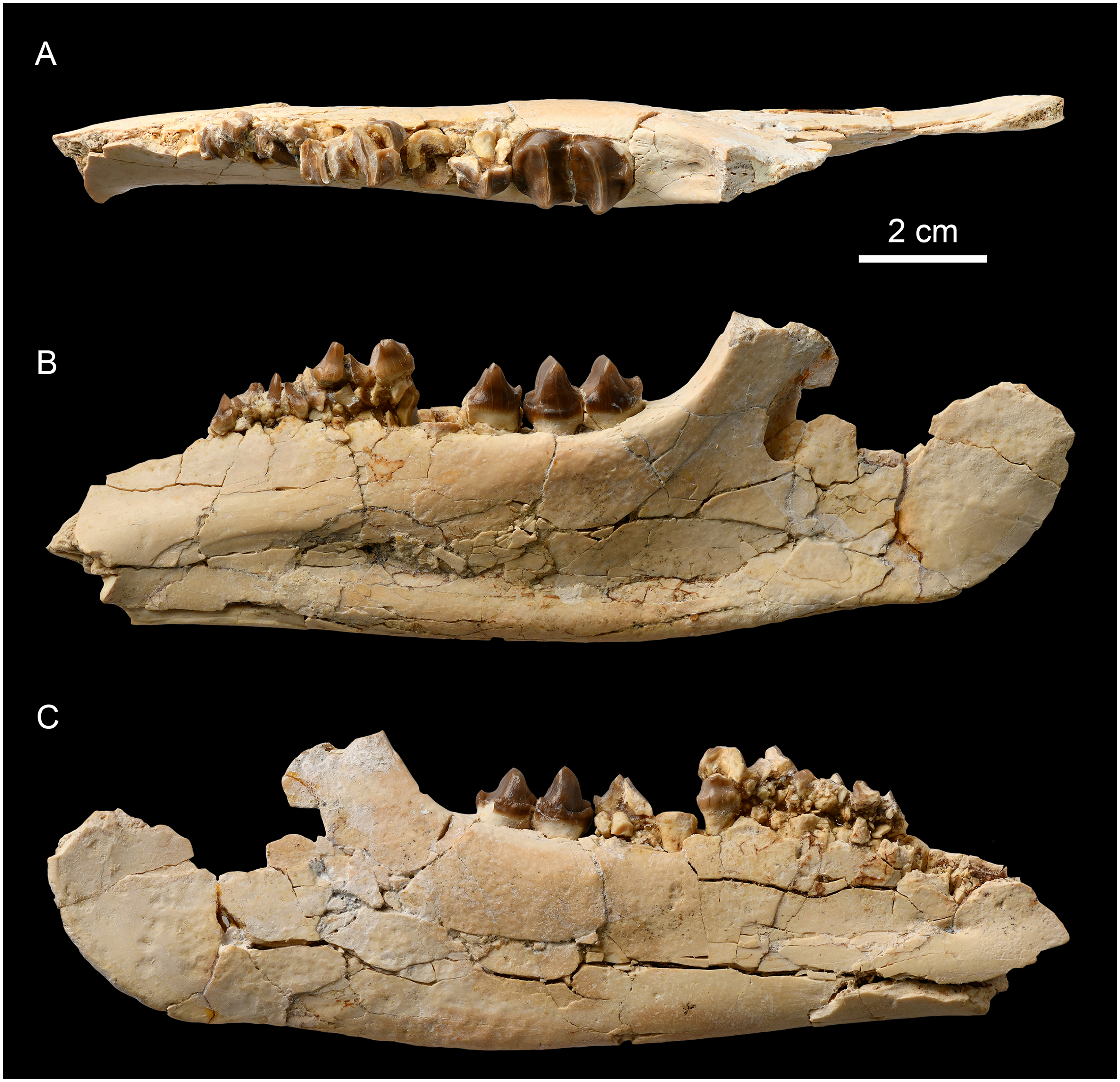 Irenolophus, right mandible of I. sp. (IVPP V 25832); A: occlusal, B: lingual, and C: buccal views; Arshanto Formation, Erlian Basin, Inner Mongolia, Early to Middle Eocene